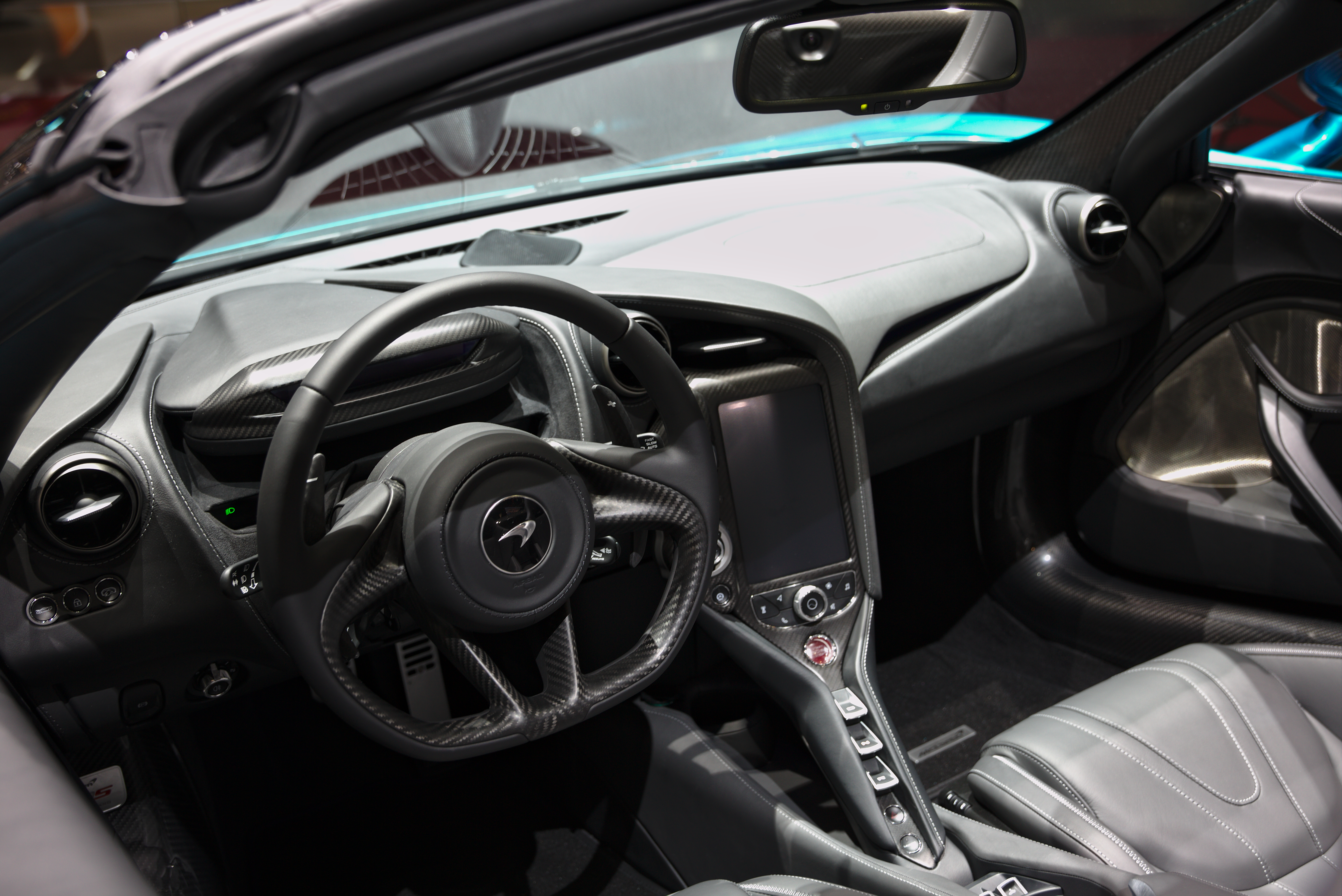 McLaren 720S Spider at Geneva Motor Show 2019